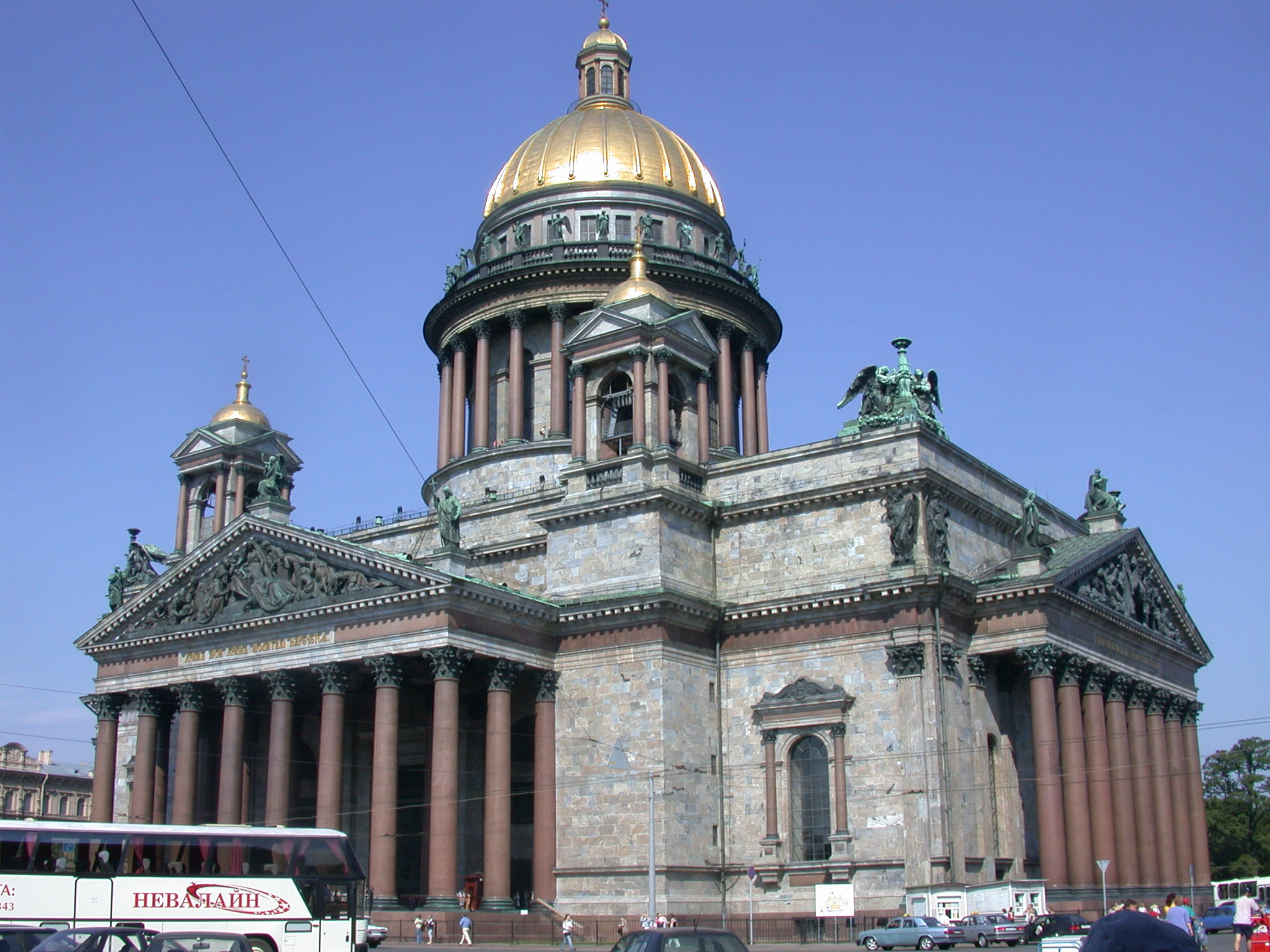 St. Isaac's Cathedral in St. Petersburg.